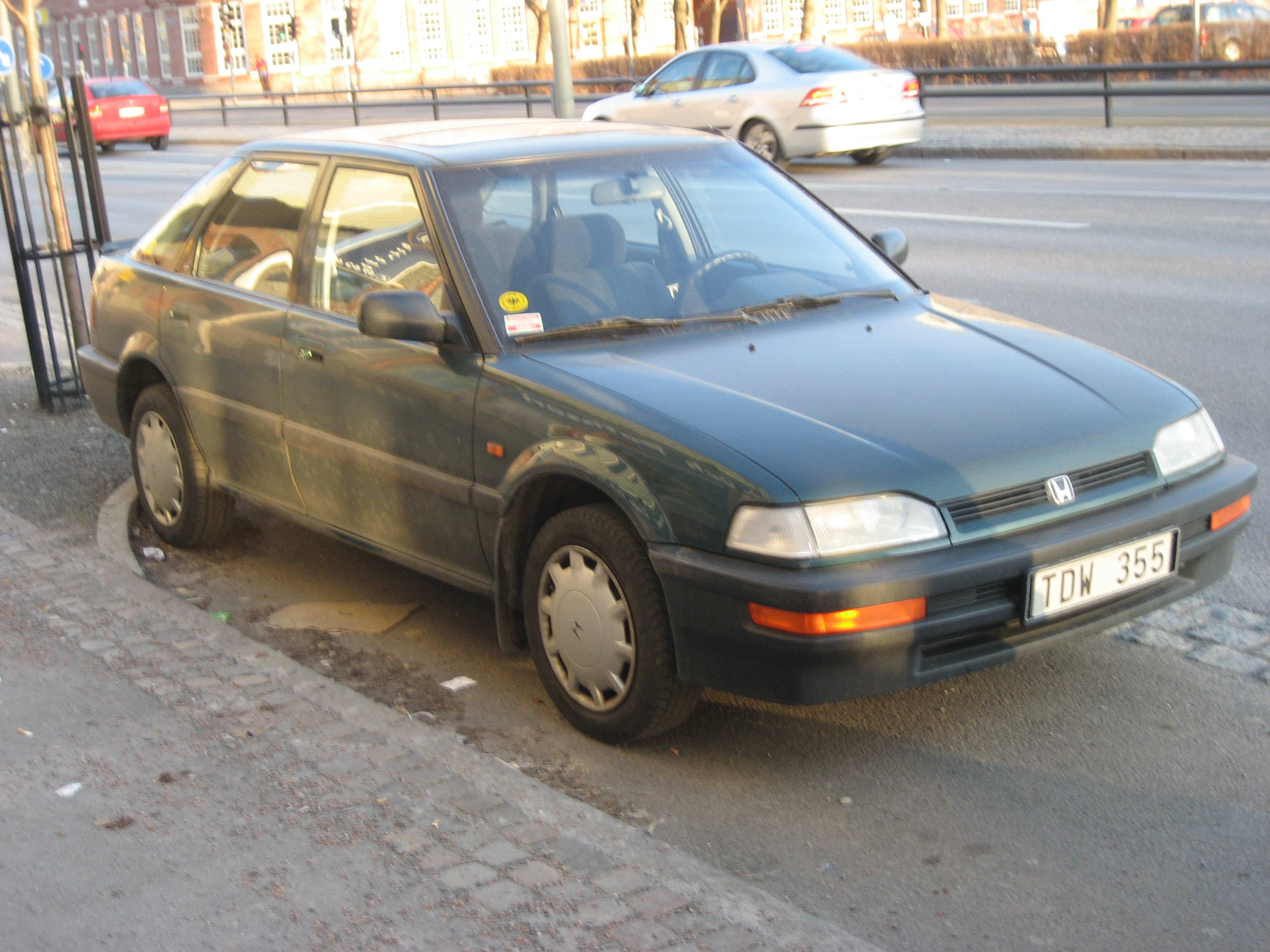 A Honda Concerto in Gothenburg, Sweden.